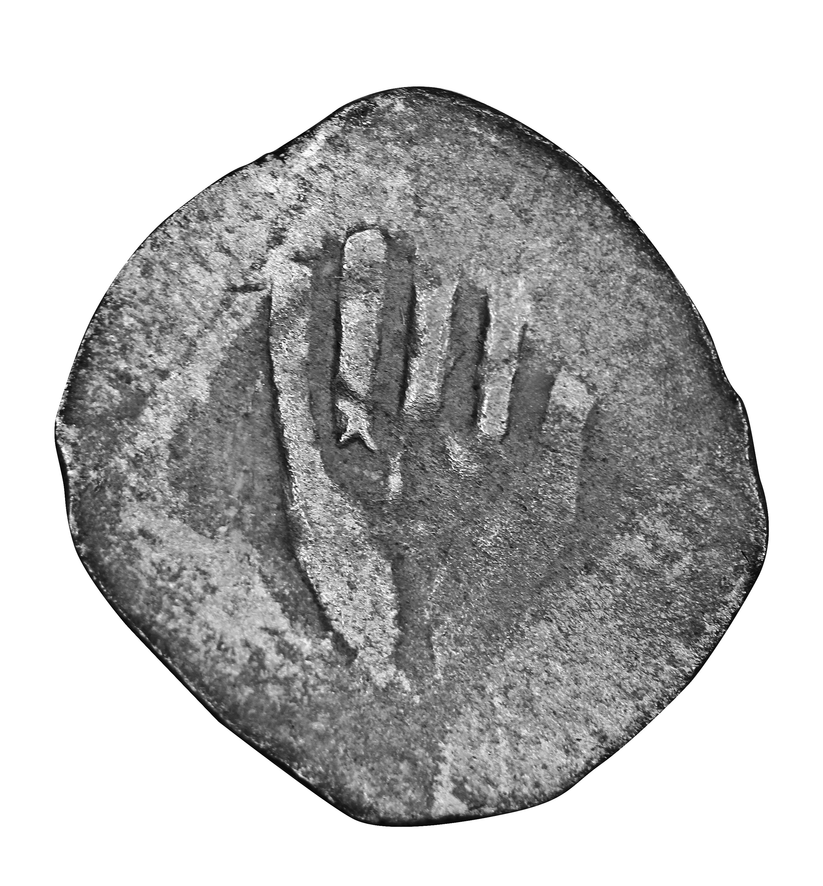 One of the first Heller silver coins. (origin: Hall am Kocher/ today Schwäbisch Hall)